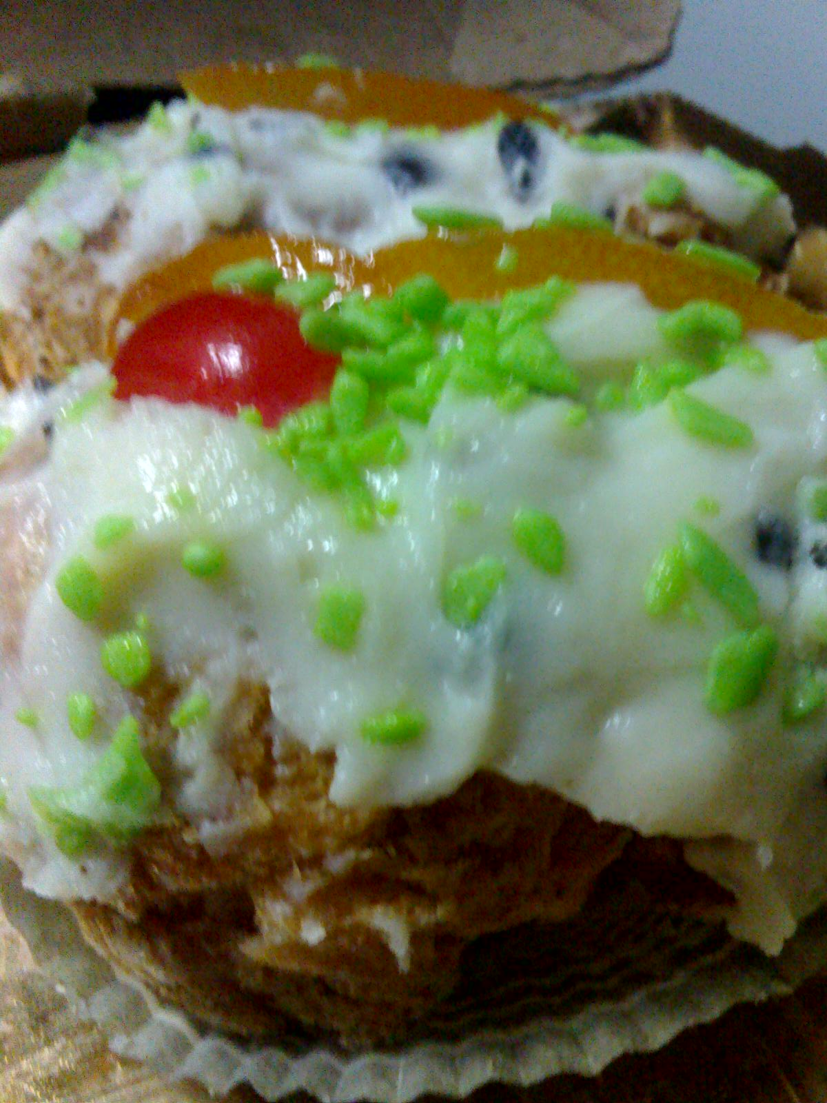 Sfince di San Giuseppe, tipical sicilian fried dishes Author: myself